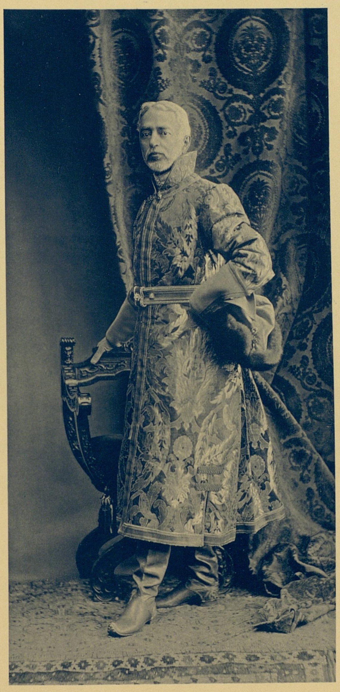 Prince George Dmitrievich Shervashidze